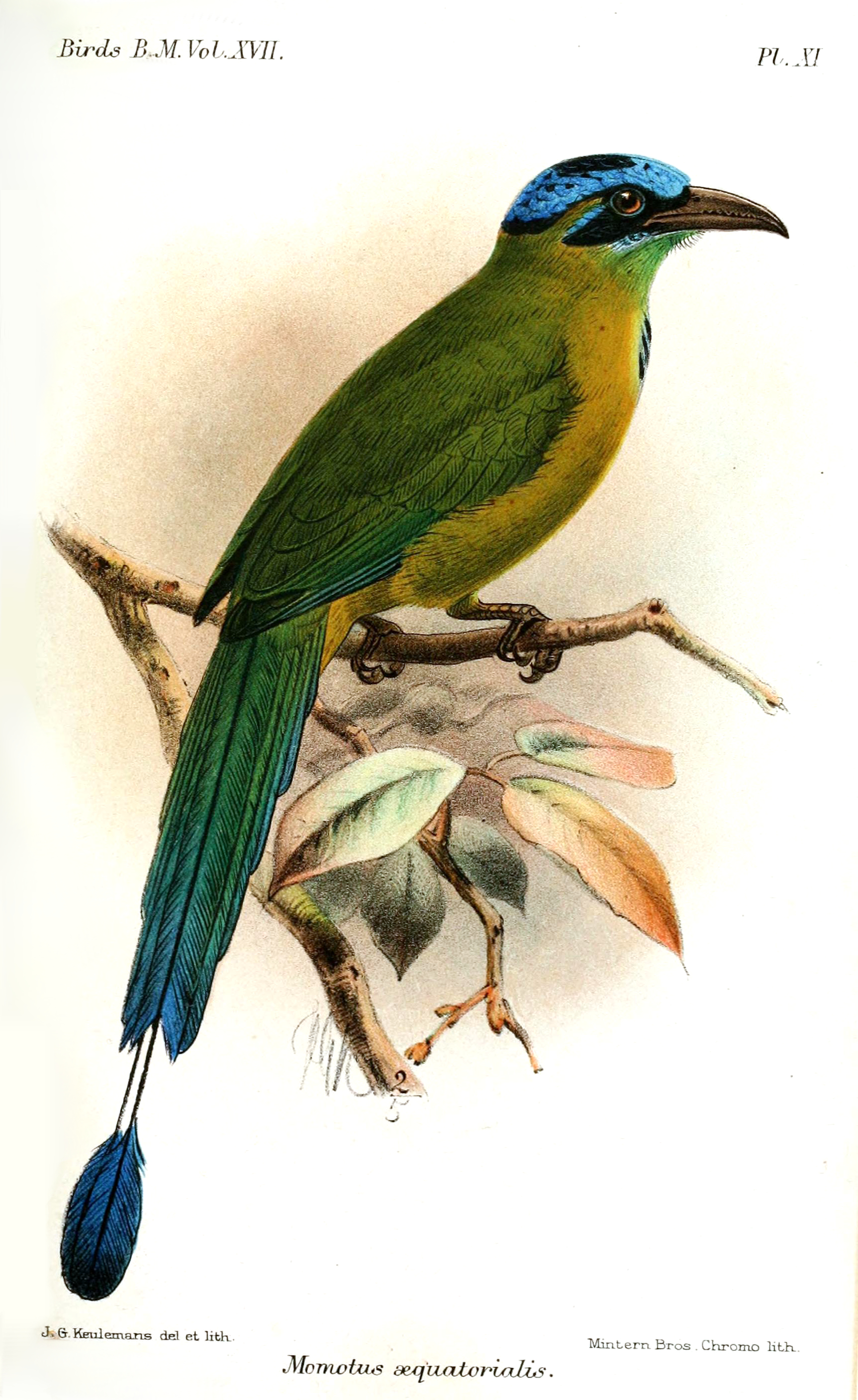 Momotus aequatorialis, Highland Motmot